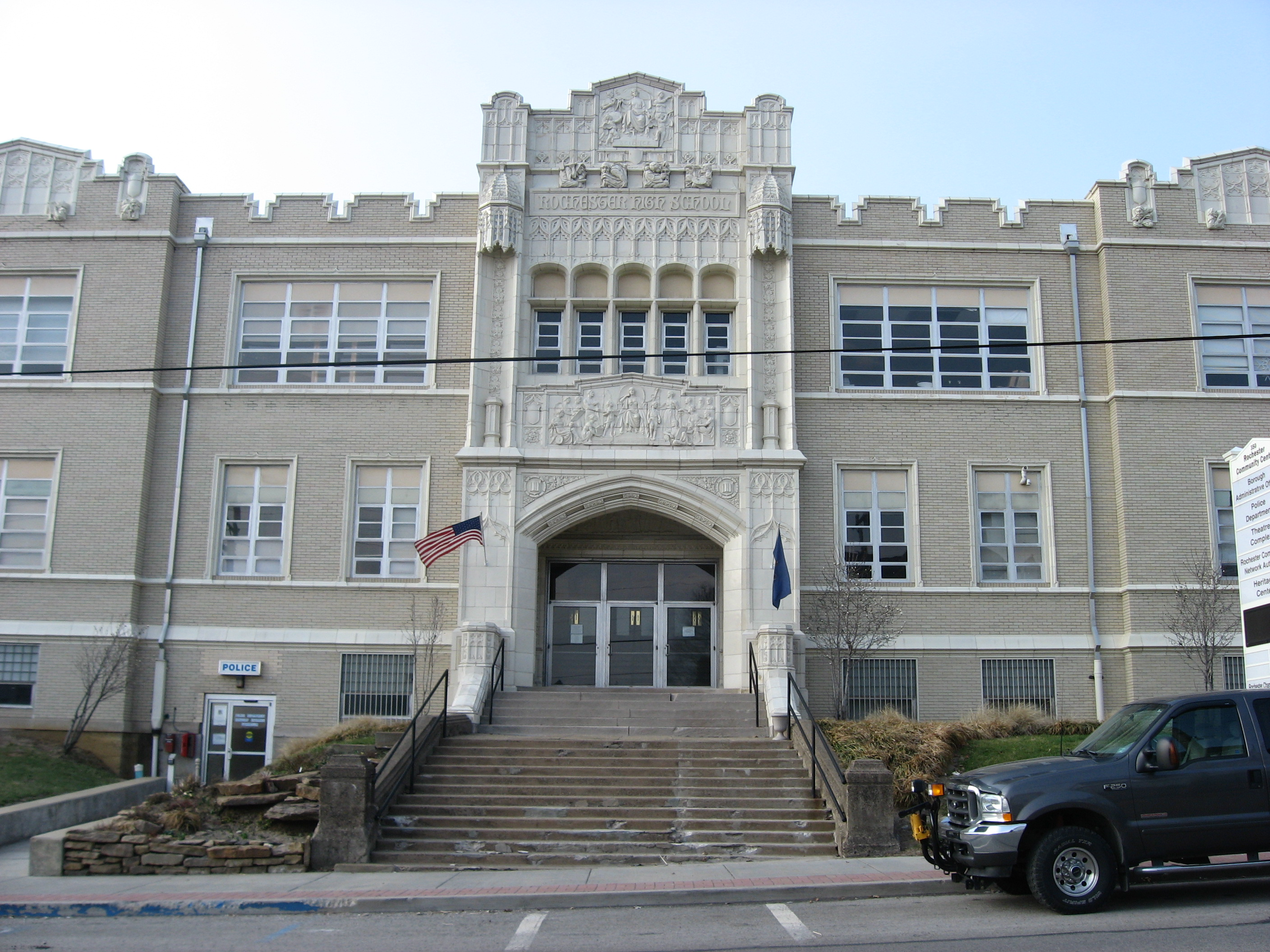 Entrance to the municipal building in Rochester, Pennsylvania, United States, located along Adams Street at the western corner of its intersection with Ohio Avenue.